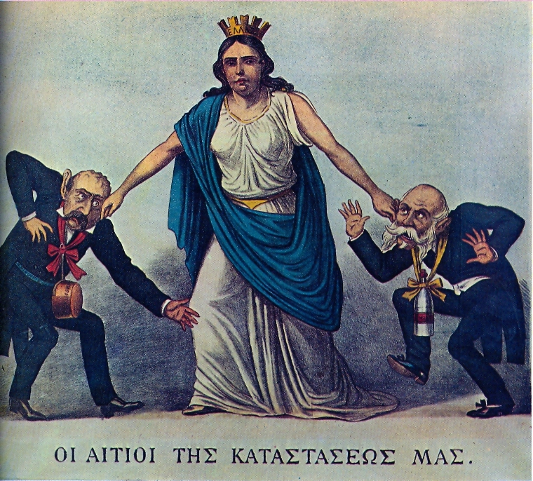 Greek satirical poster of the 1880s, depicting political leaders Deligiannis and Trikoupis